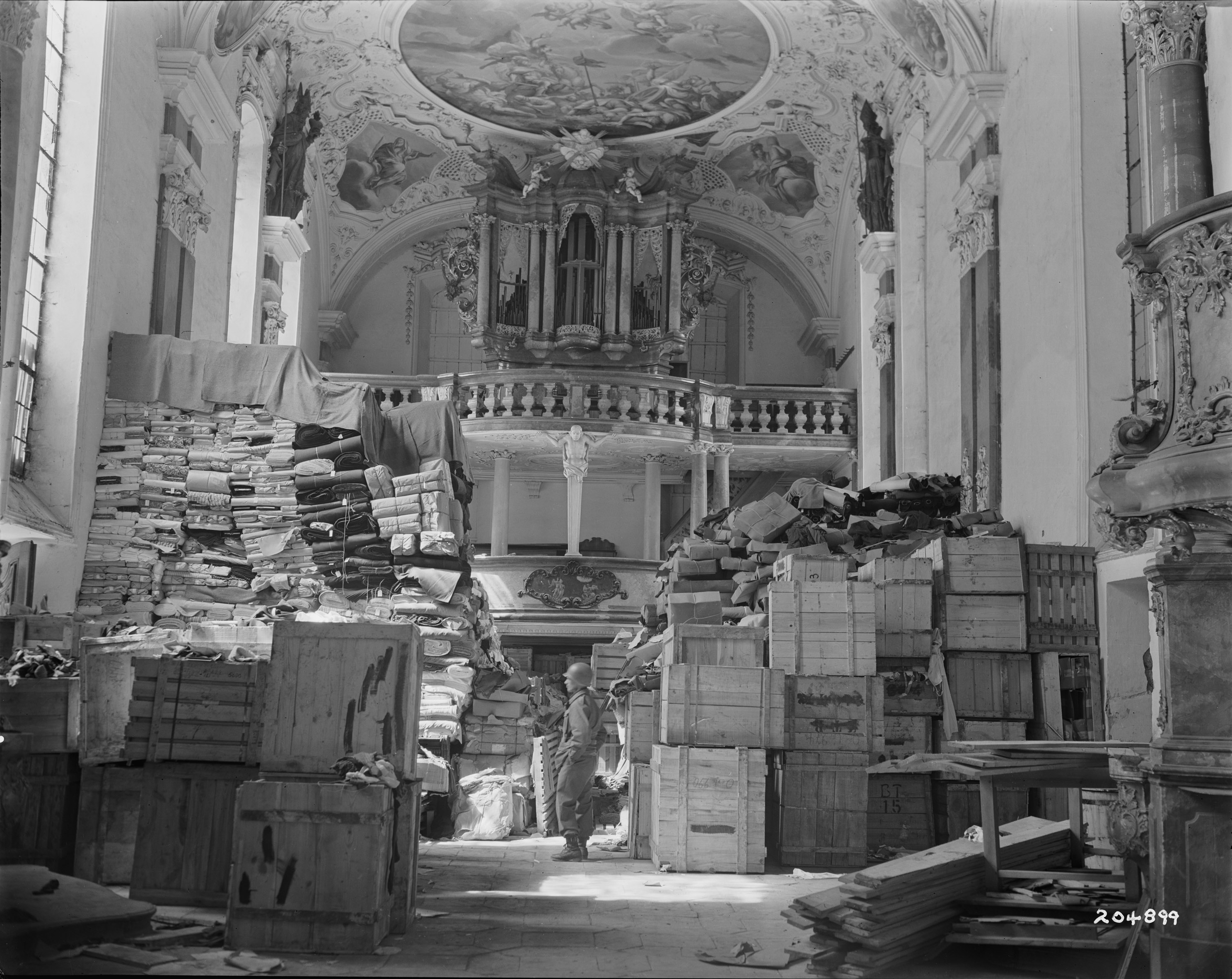 An American 3rd Army soldier inspects German loot stored, found at the Schloßkirche in the south German town Ellingen, April 24, 1945